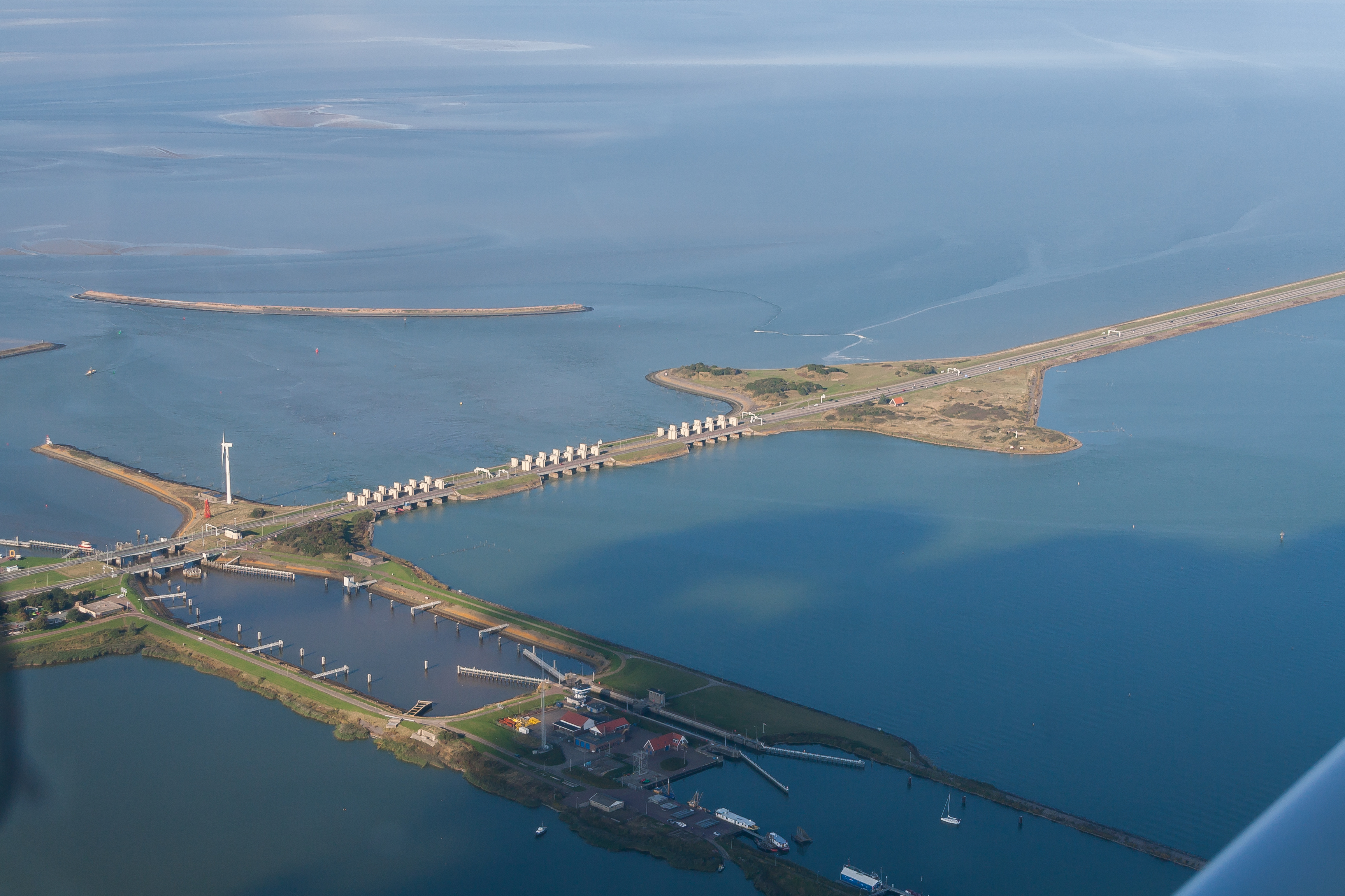 Afsluitdijk near Den Oever